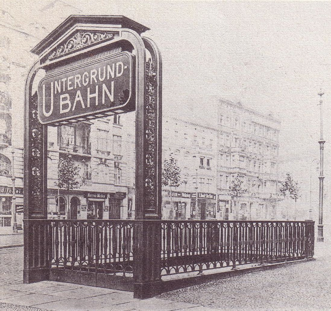 Entrance to the Berlin U-Bahn station Senefelderplatz, line U2